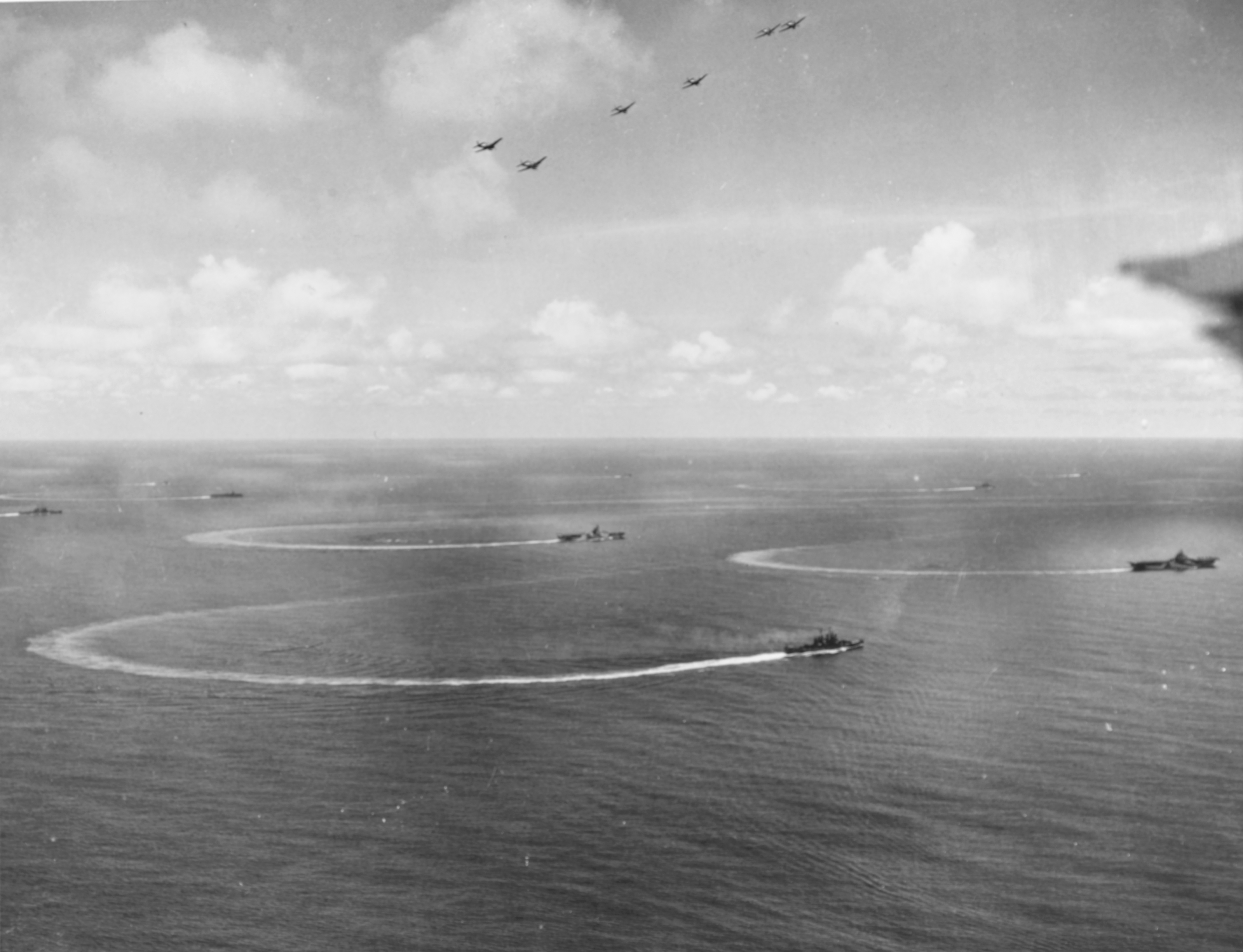 The U.S. Navy Task Force 58 raids in the Caroline Islands, July 1944: Rear Admiral J.J. Clark's Task Group 58.1 reverses course, during attacks on Yap, 28 July 1944. The aircraft carrier USS Hornet (CV-12) is in the center, with the light carrier USS Cabot (CVL-28) in the left middle distance and USS Yorktown (CV-10) at right. Six Grumman F6F Hellcat fighters are overhead.